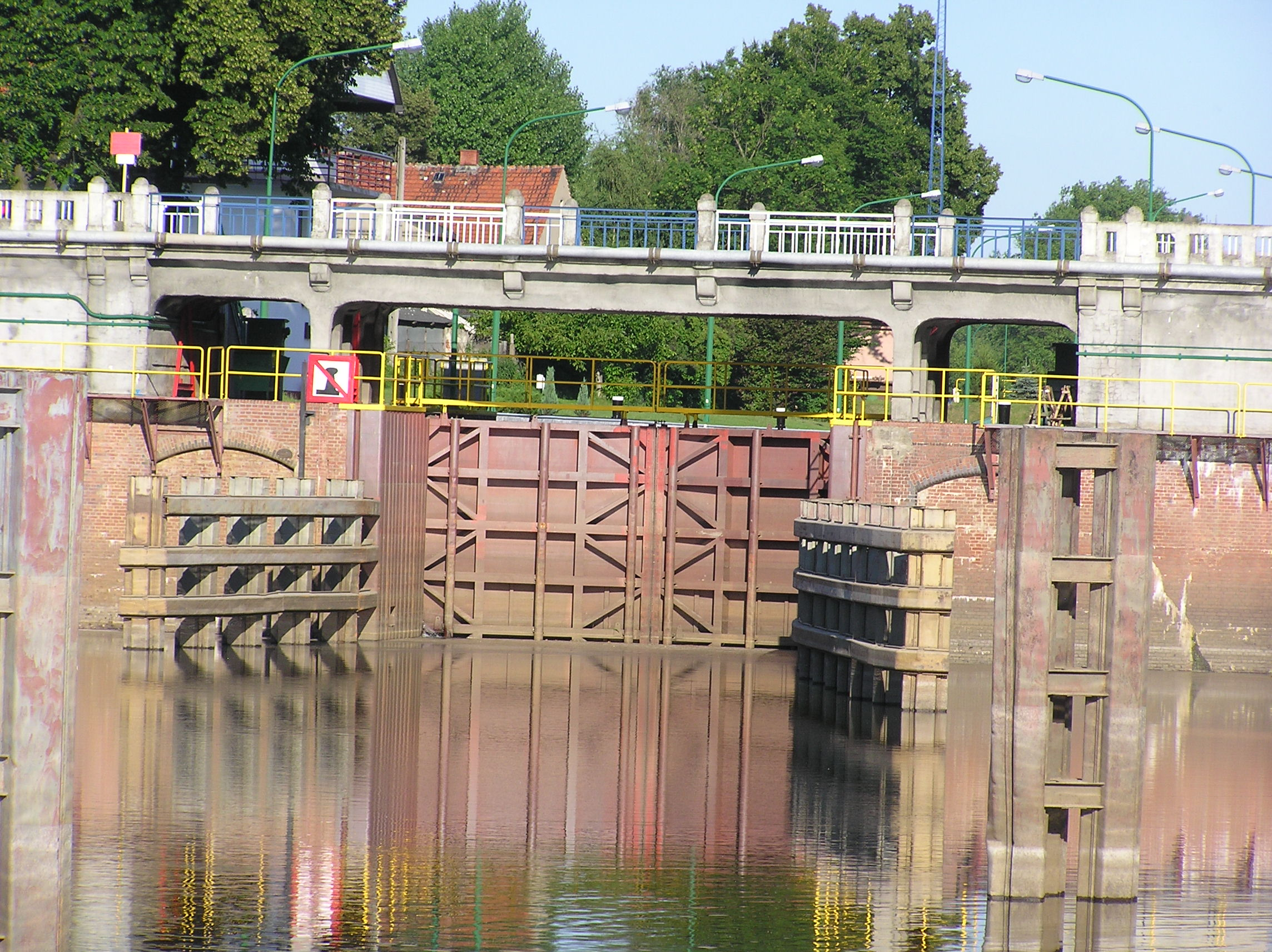 Oława II Lock